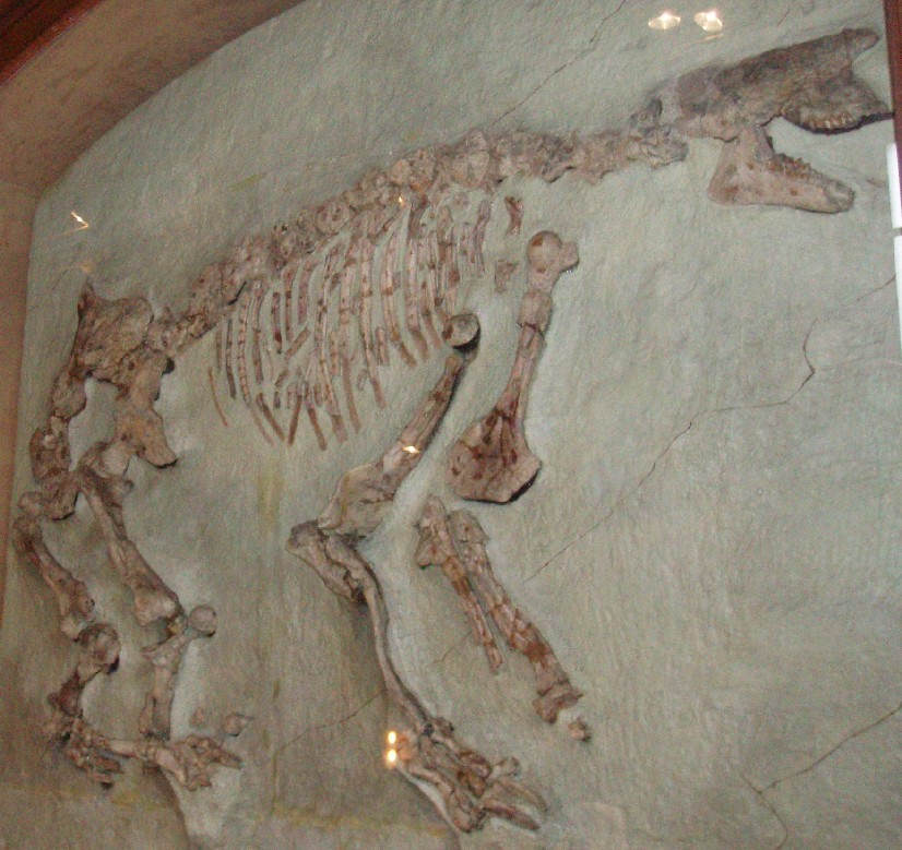 Chalicotherium (syn. Macrotherium)